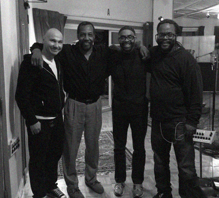 Image of Svoy, Donald Brown, Kenny Garrett & Vernell Brown